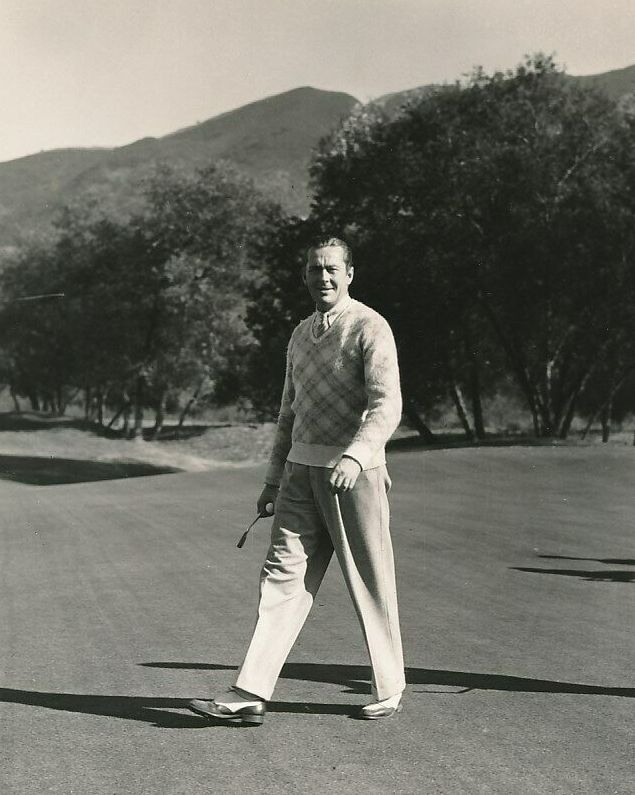 Actor James Dunn at Lakeside Golf Club, Burbank, California